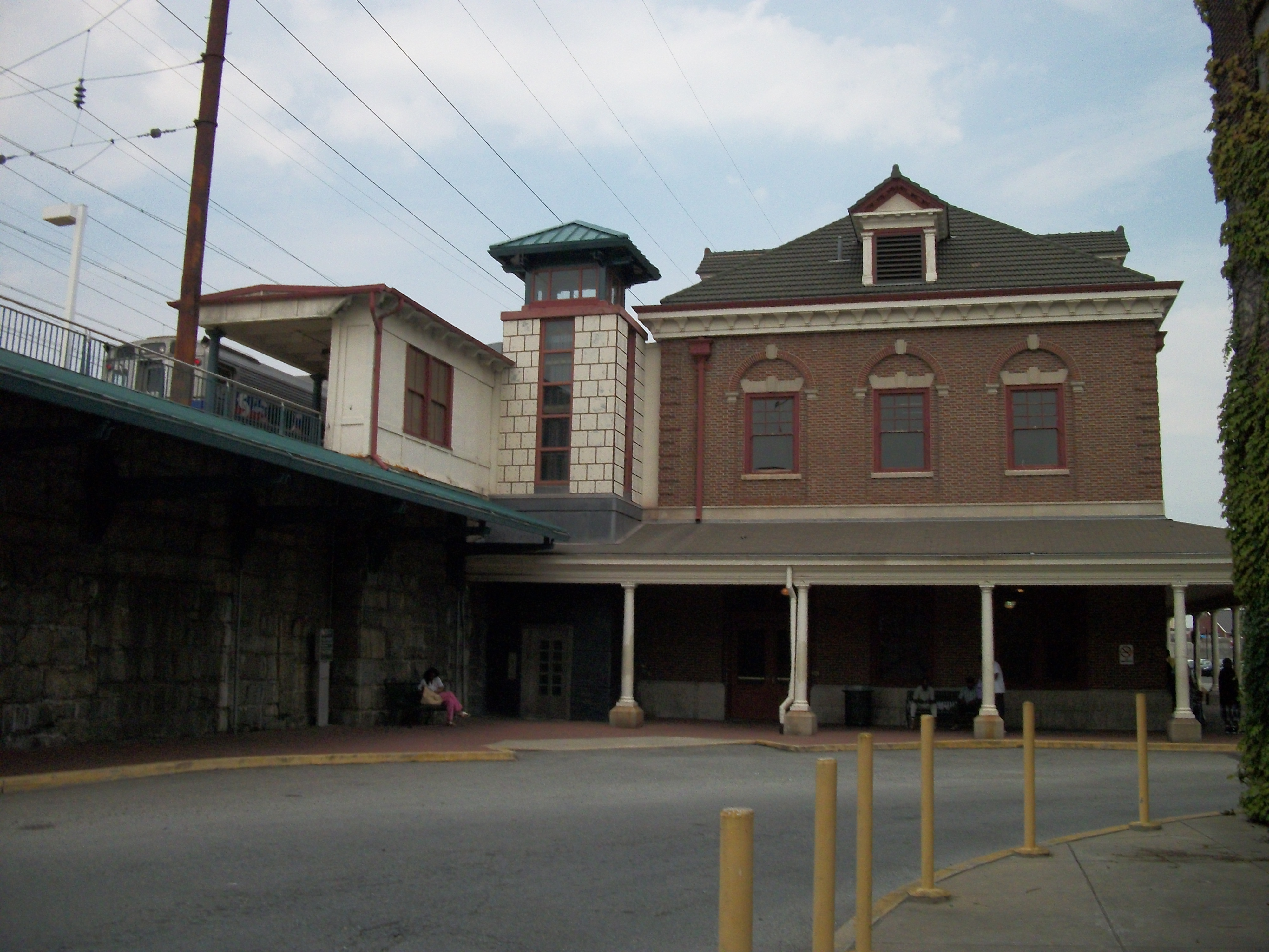 A risky shot of the Chester Transportation Center in Chester, Pennsylvania. Risky, because it was taken from the bus driveway in front of the station, and I was parked in a lot for SEPTA Buses only. This was an old Pennsylvania Railroad Station and former Amtrak Station from 1903, which SEPTA tried to upgrade mainly by renaming. I wish I got a shot from Welsh Street itself, where the year it was built is engraved on what looks like a chimmney.